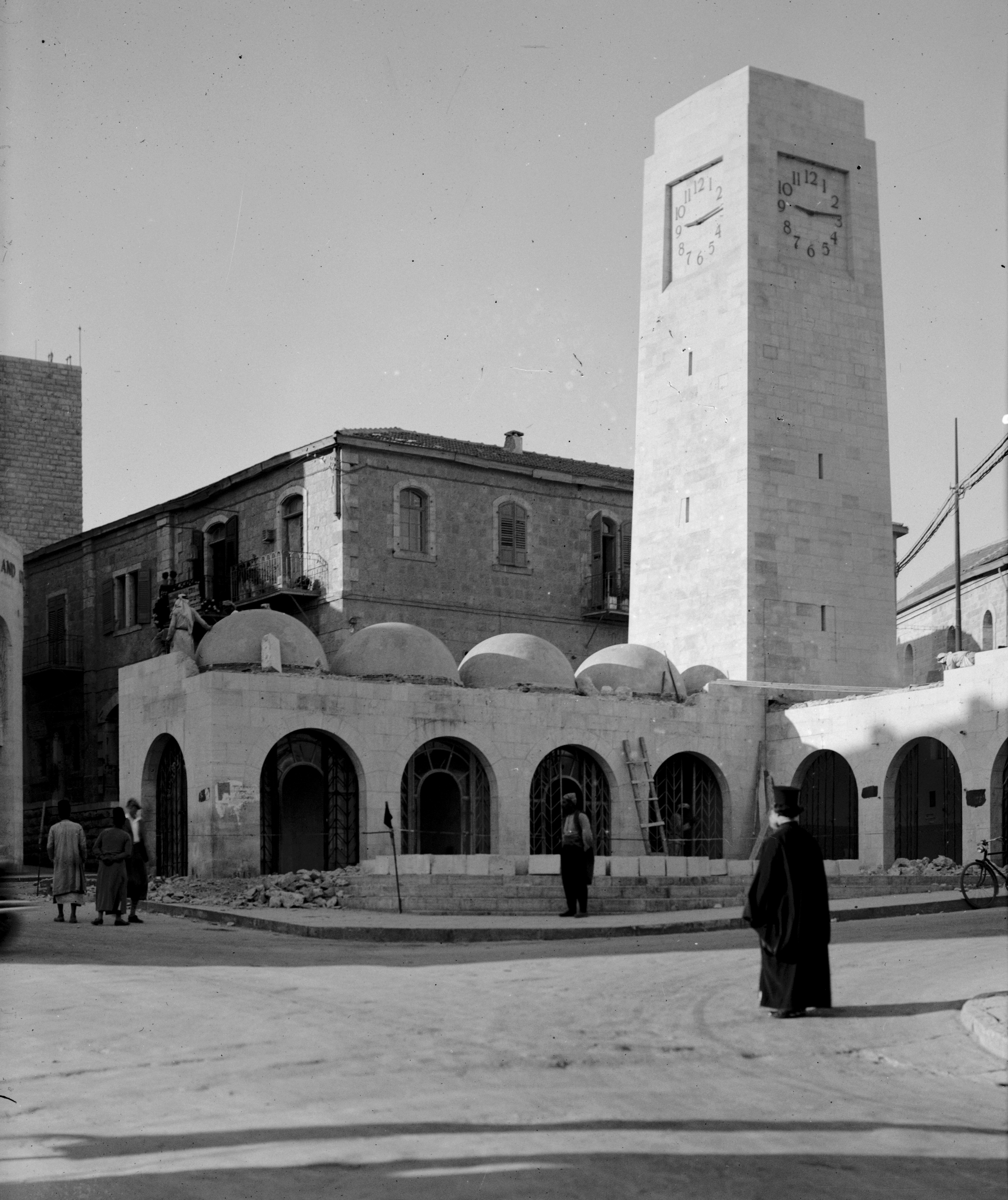 Allenby Sq. [i.e., square] clocktower.